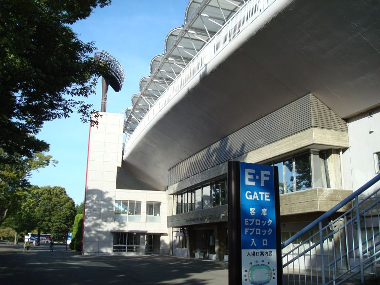 Main entrance of Kasamatsu Sports Park Athletic Stadium in Hitachinaka City, Ibaraki Prefecture, Japan